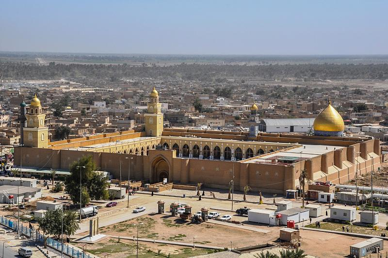 Al Kufa G.Mosque in Kufa City at Najaf in Iraq